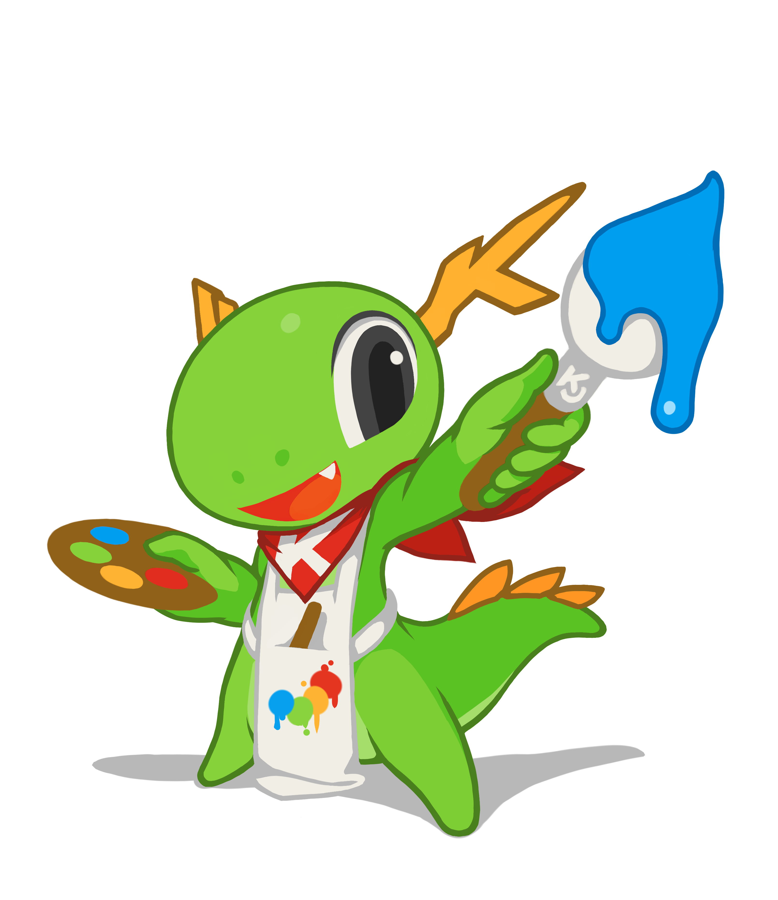 KDE mascot Konqi for graphics applications.